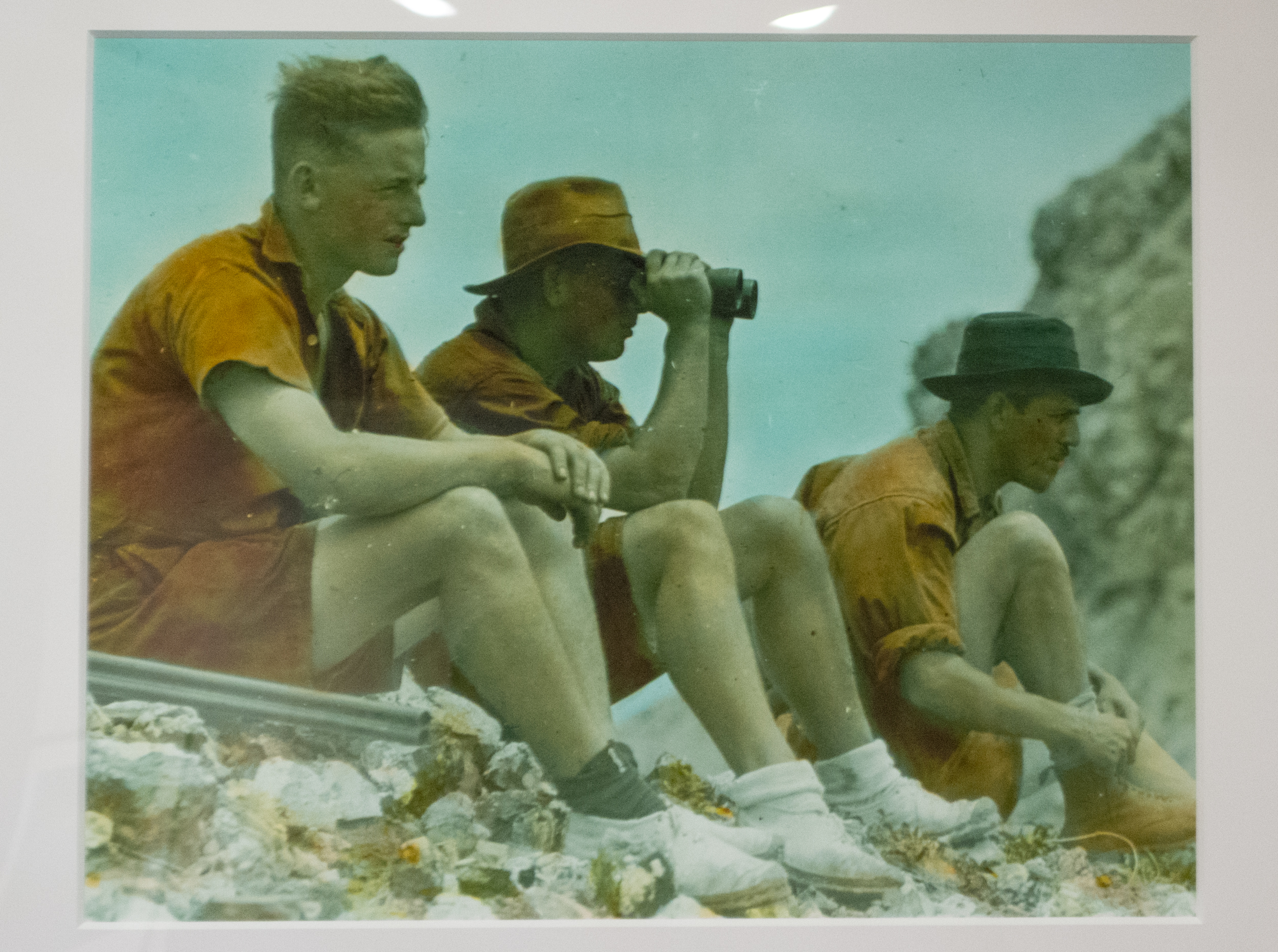 Looking for goats on Ascension Island. Part of the exhibit "Sailing for Science: The Voyage of the Blossom", hosted by the Cleveland Museum of Natural History in Cleveland, Ohio, in the United States. Expedition leader George Finlay Simmons is on the far right. The three-masted sailing ship Blossom left Connecticut in the United States for Africa, the South Atlantic, and South America on a specimen collecting expedition in 1922. The voyage was sponsored by the Cleveland Museum of Natural History. The ship returned in 1926 with more than 12,000 specimens.